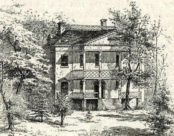 "Richmond Hill House, Varick Street, between Charlton and Vandam Streets" from Haswell, Charles Haynes (1809-1907) Reminiscences of an octogenarian of the city of New York, 1816-1860. (New York : Harper, 1897)